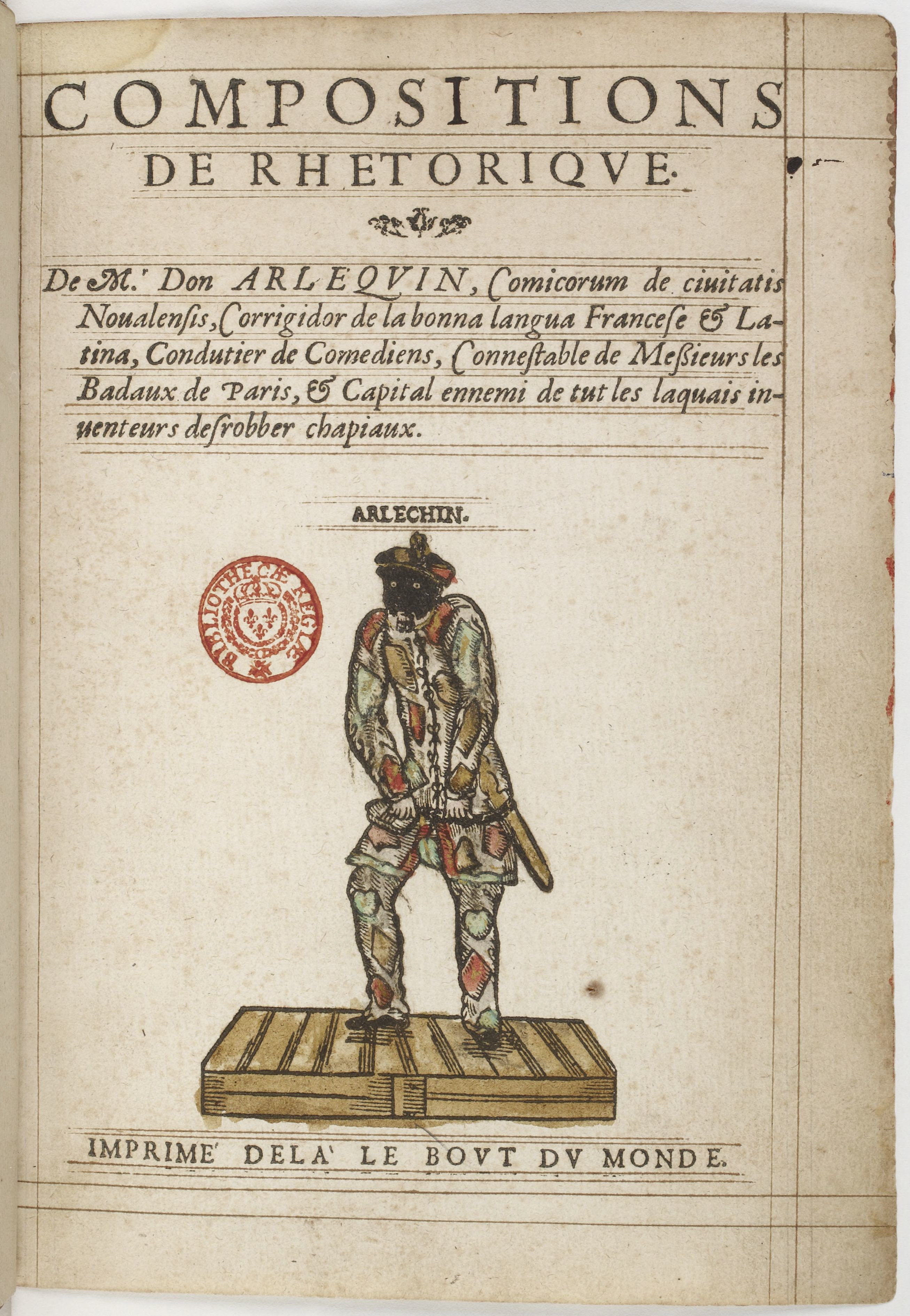 Title page of Compositions de rhétorique de Mr. Don Arlequin by Tristano Martinelli